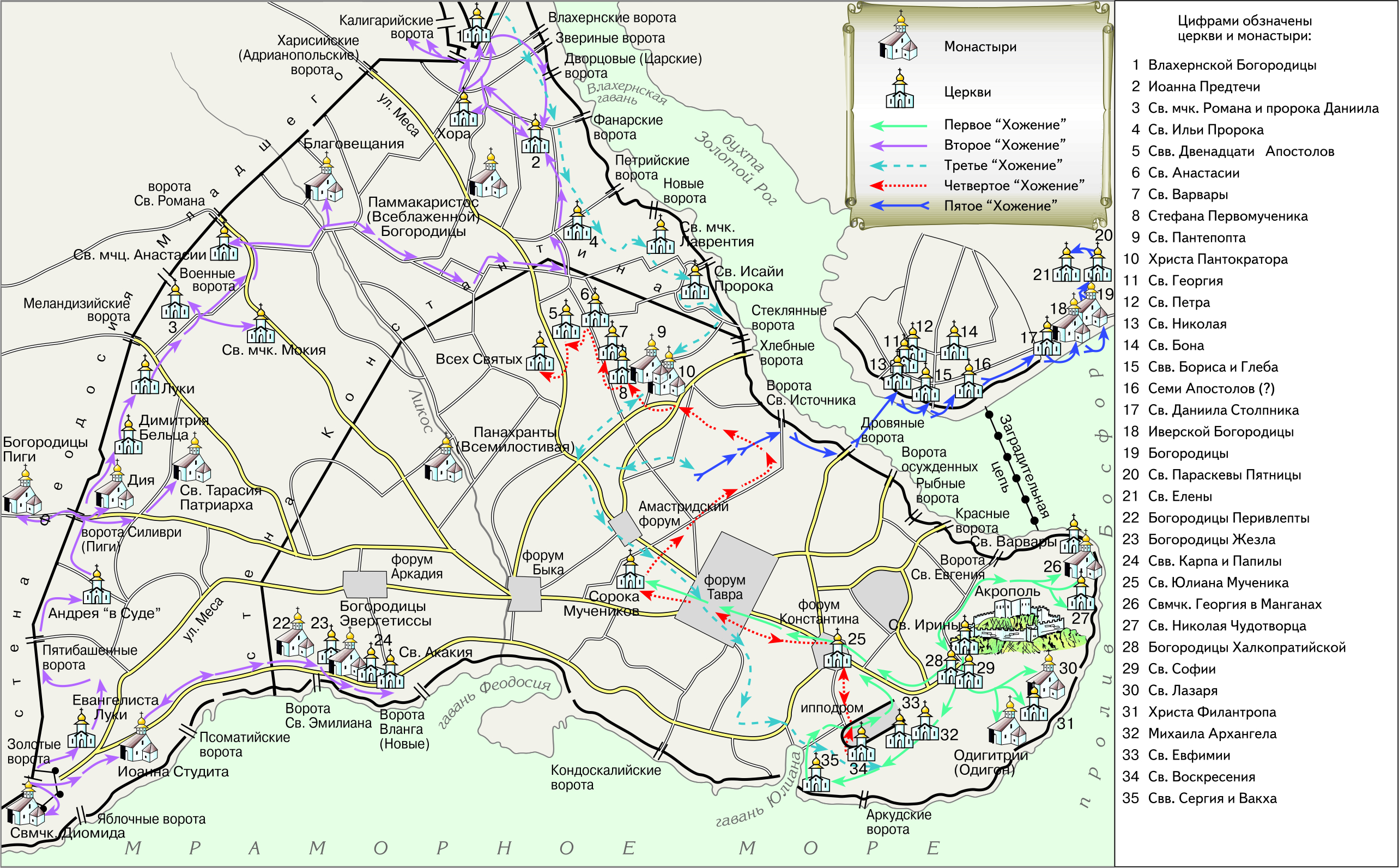 Saint Archbishop Antonius Journey 1200 in Constantinople